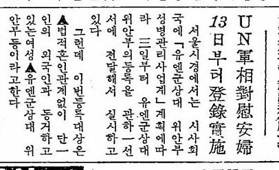 The registration of Comfort women for UN Forces (UN軍 相對 慰安婦) on September 13, 1961. Seoul Metropolitan Police Agency enforced registration of comfort women for United Nation forces under the Society Bureau's operation of "Management industry of venereal comfort women for UN forces". This registration was to permit domestic partnerships between foreigners and comfort women, without actually being legally-recognized marriages.